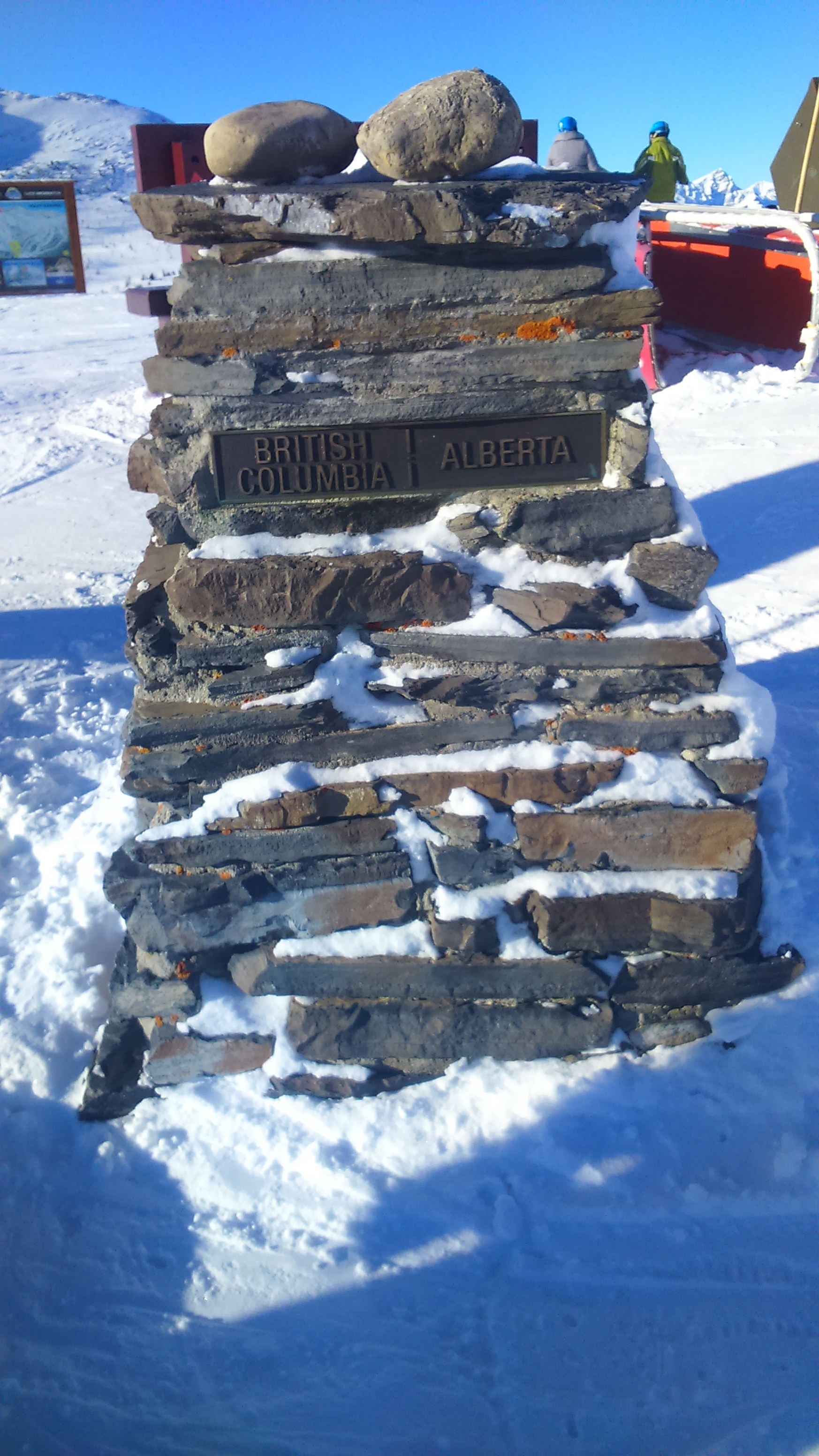 Photo of Banff Sunshine Village Continental Divide Monument Between British Columbia and Alberta on 31 December 2018